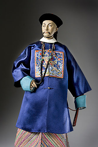 Historical Mixed Media Figure of Baron Ronglu Jung-Lu produced by artist/historian George S. Stuart and photographed by Peter d'Aprix. This image, from the George S. Stuart Gallery of Historical Figures® archive ( is provided for all uses with appropriate attribution. Any derivatives must be shared in the same manner. Contributor mharrsch is webmaster for the gallery site.